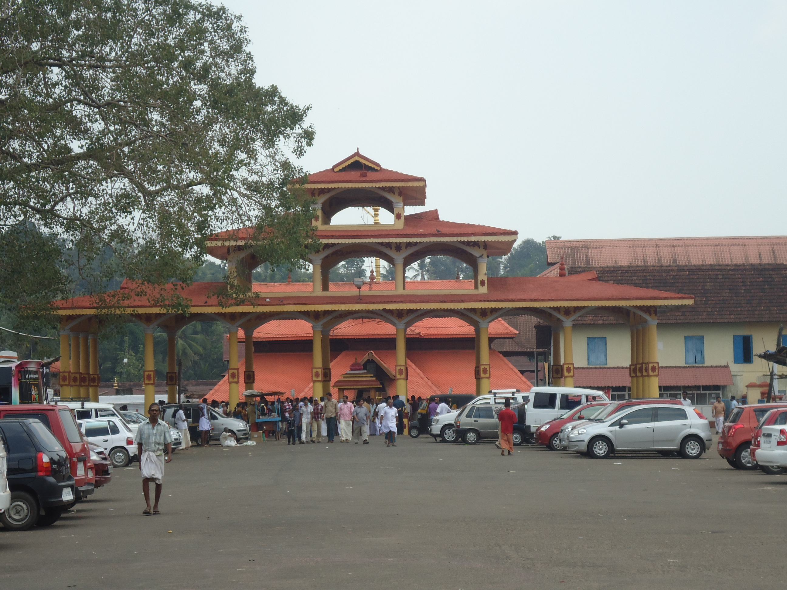 Ettumanoor Temple Front Arch